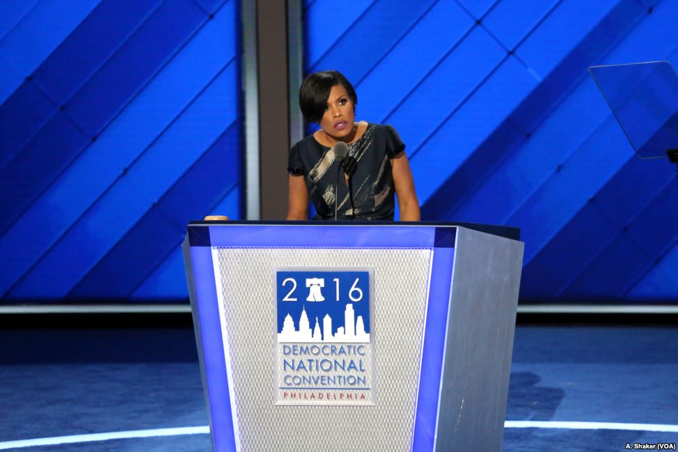 Baltimore Mayor Stephanie Rawlings-Blake preceding over the nominating roll-call at the 2016 DNC